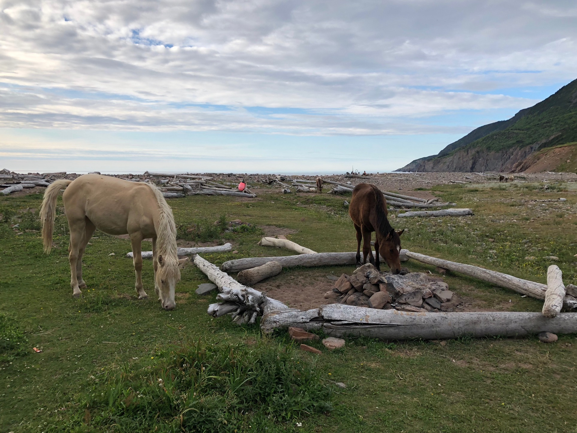 Wild Horses, Pollett's Cove, Nova Scotia